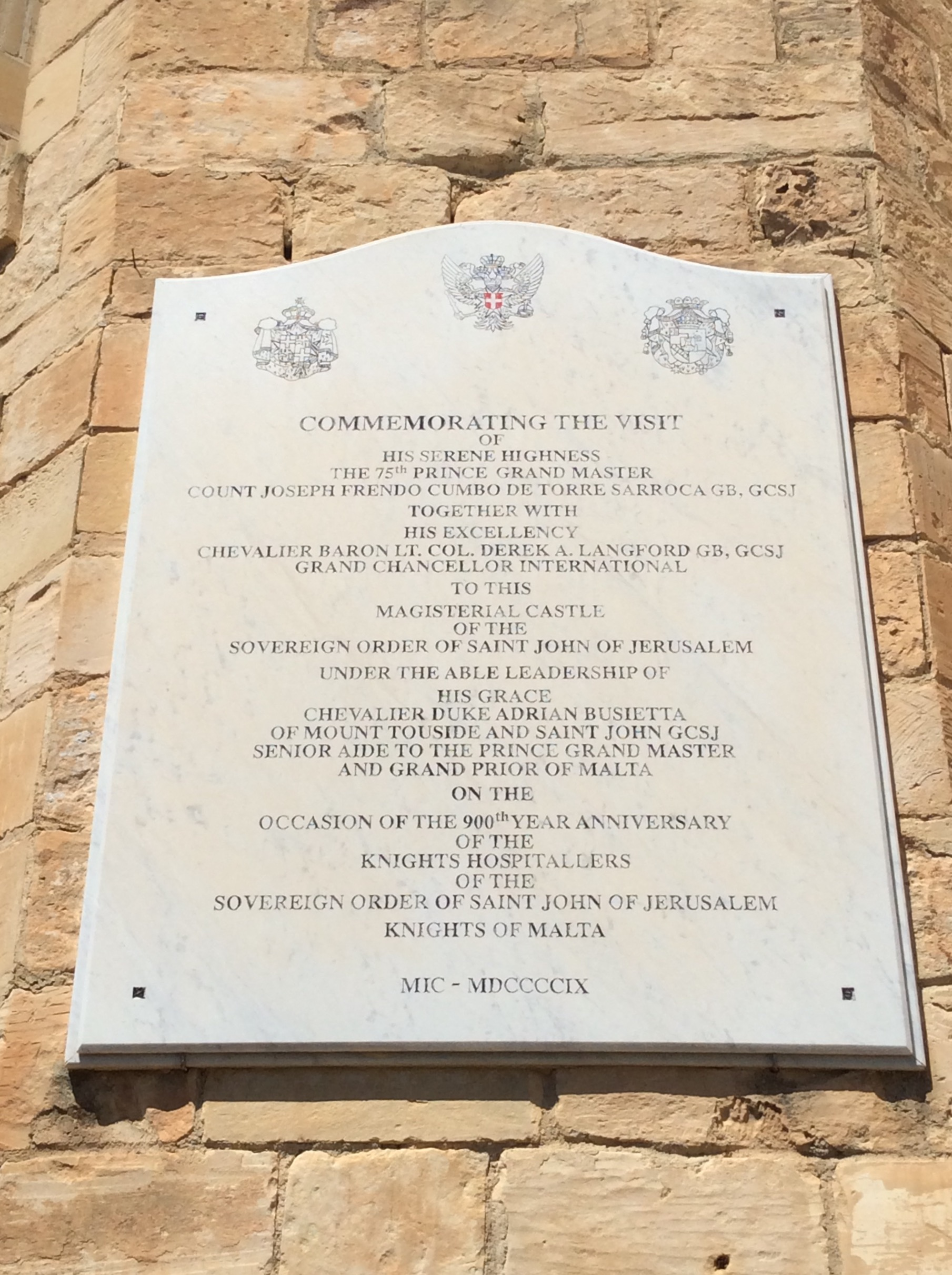 Castello dei Baroni